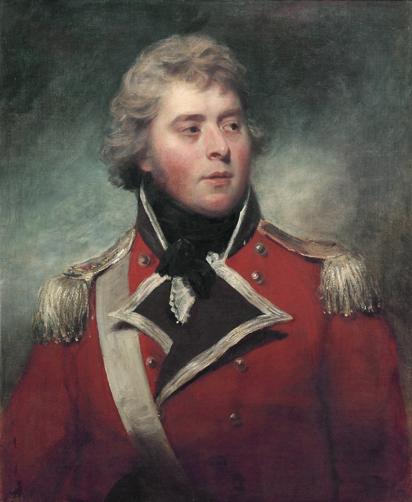 George Nugent Temple Grenville, 1st Marquess of Buckingham (1753-1813) oil on canvas 76.8 x 63.4 cm